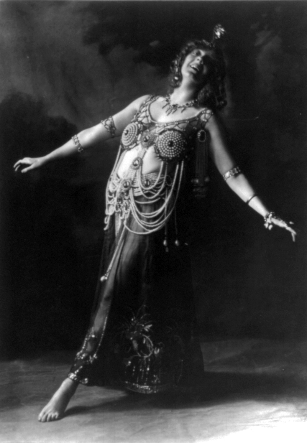 Gertrude Hoffman scantily-dressed for her role in the opera Salome.